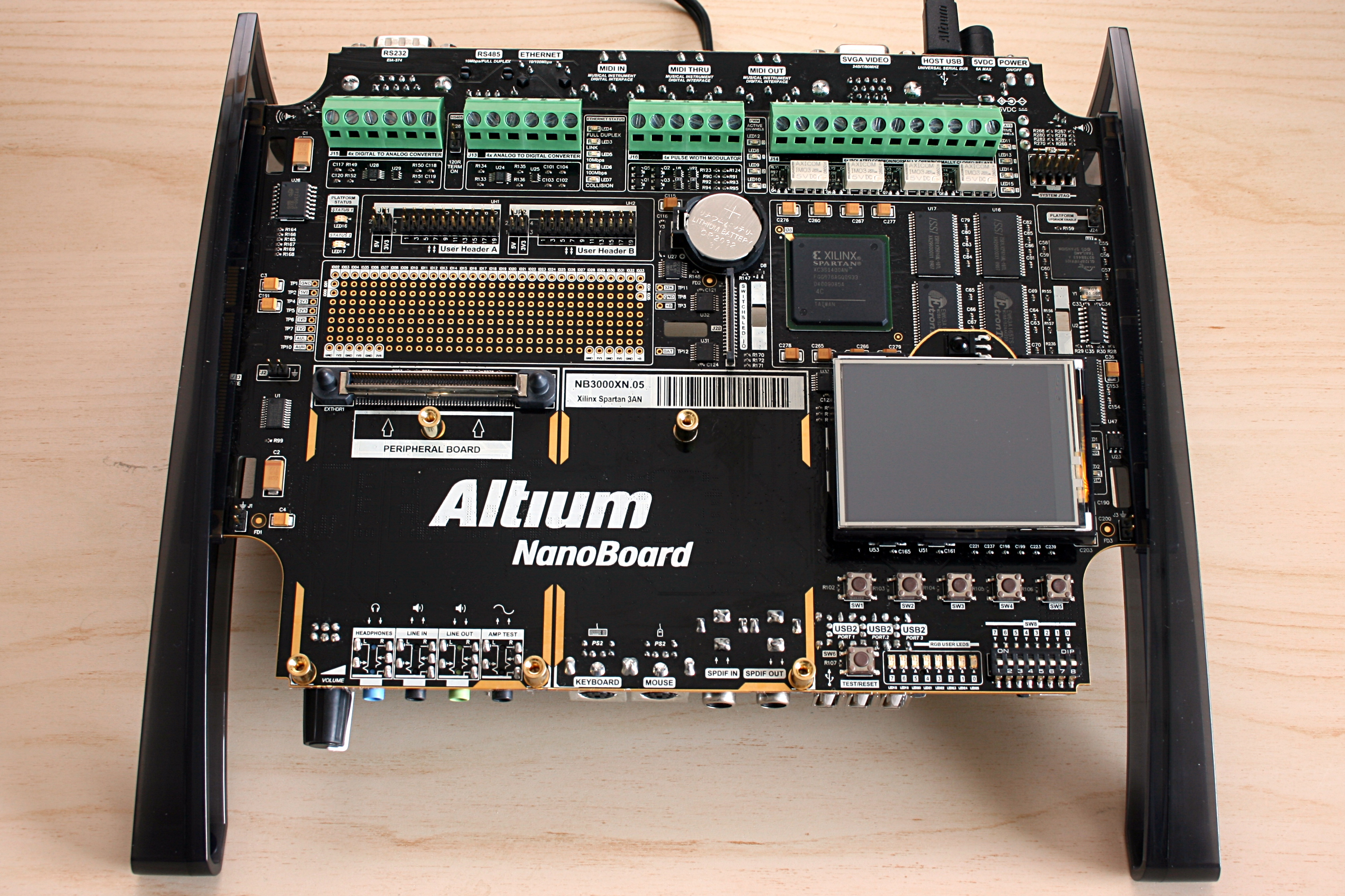 Altium NanoBoard 3000 FPGA development board incorporating a Xilinx Spartan-3AN FPGA.